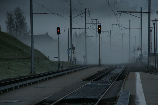 Railway Station Escholzmatt